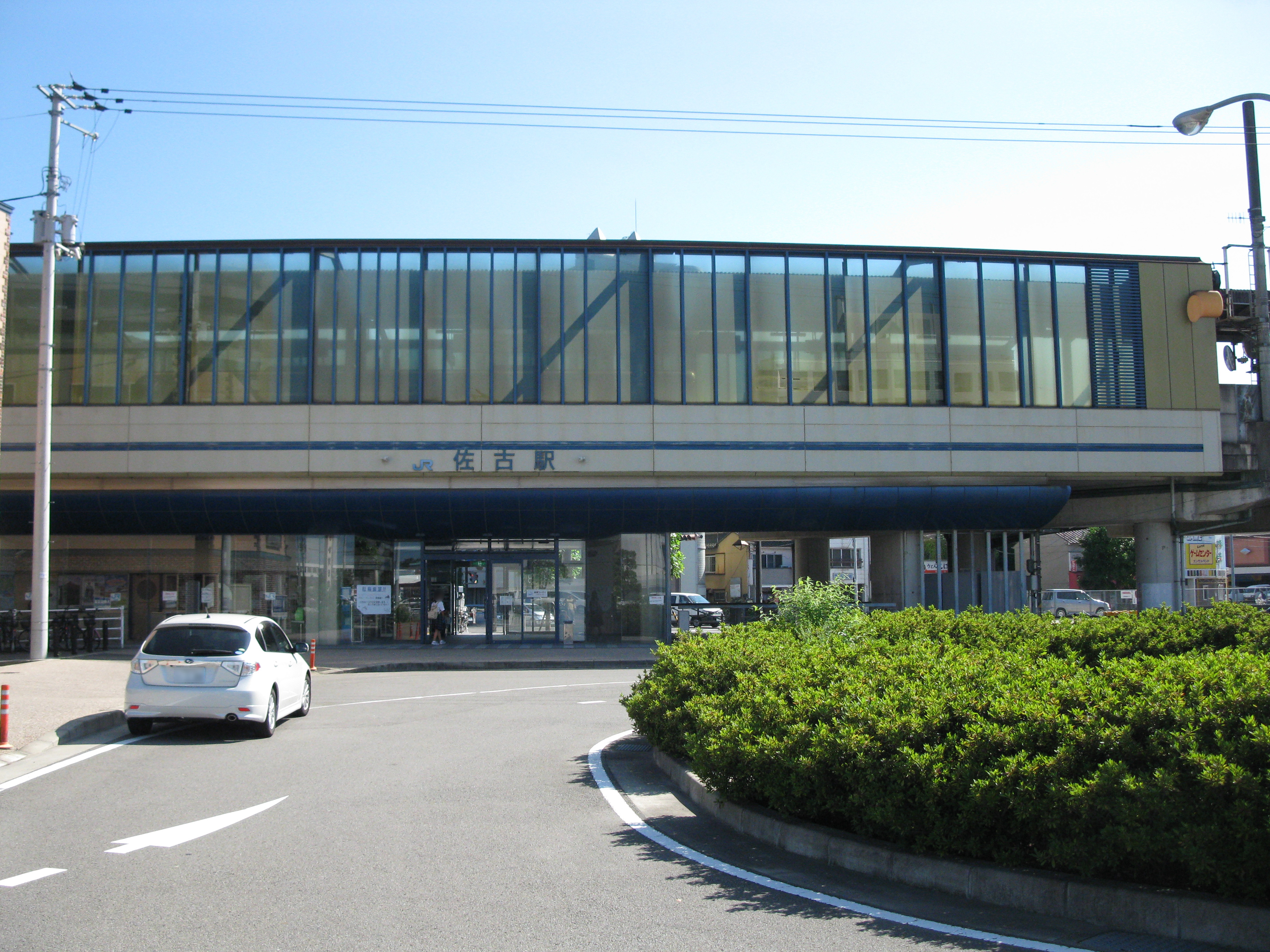 Sako Station north entrance (Shikoku Railway(JR Shikoku) Kōtoku Line, Tokushima Line)